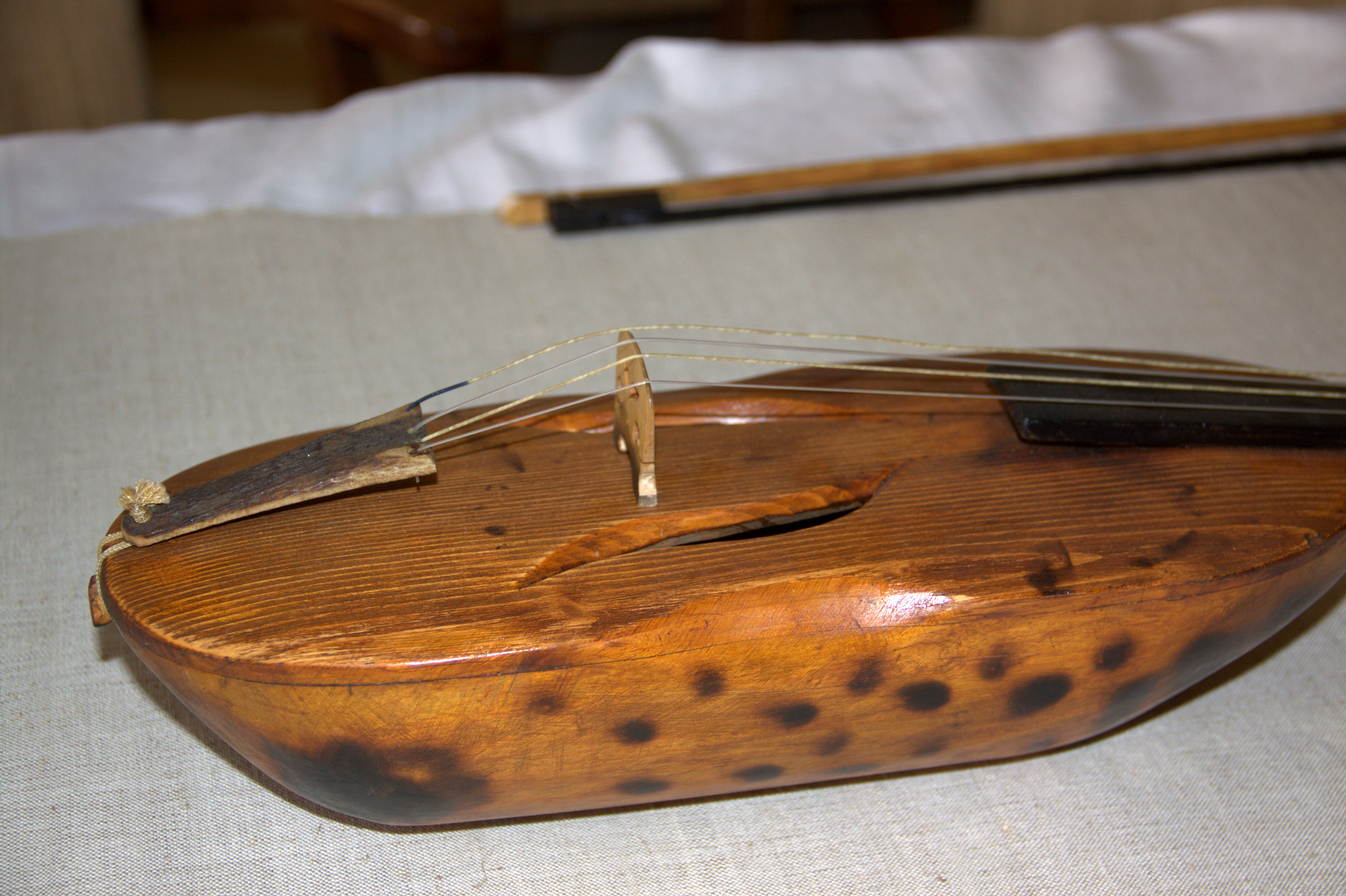 Music instrument from Ethnographic Museum in Martin